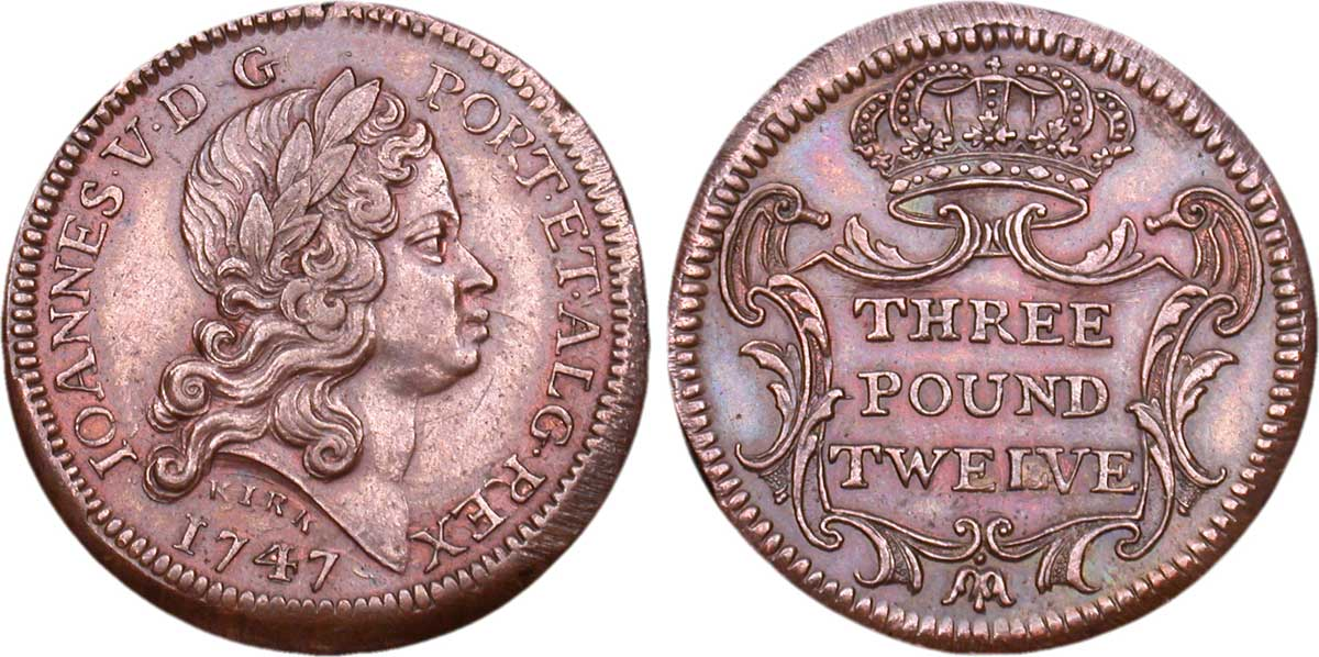 Poids monétaire pour les pièces d’or de 12.800 reis du Brésil à l'effigie de Jean V, 1747